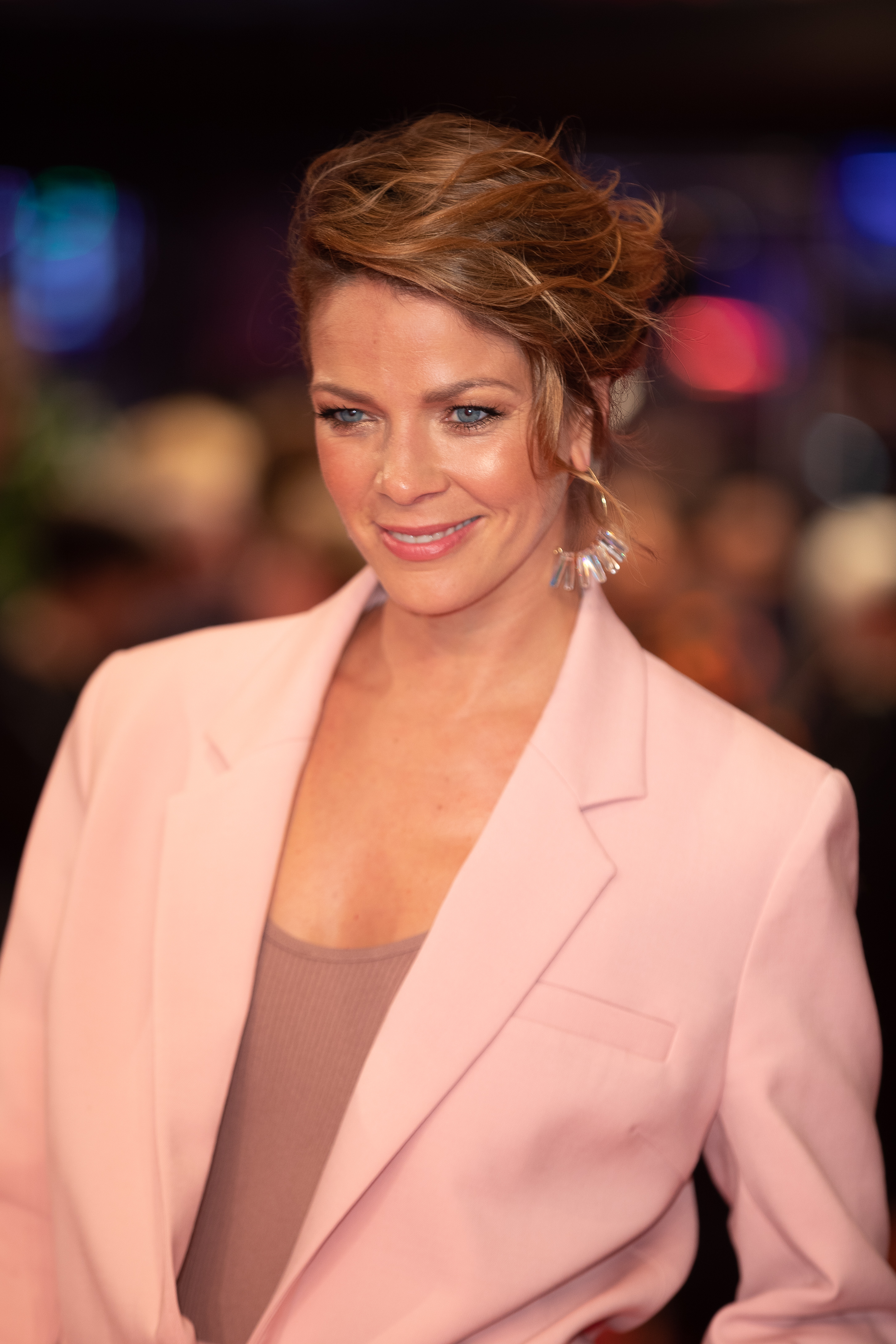 Jessica Schwarz on the red carpet of the Berlinale 2020